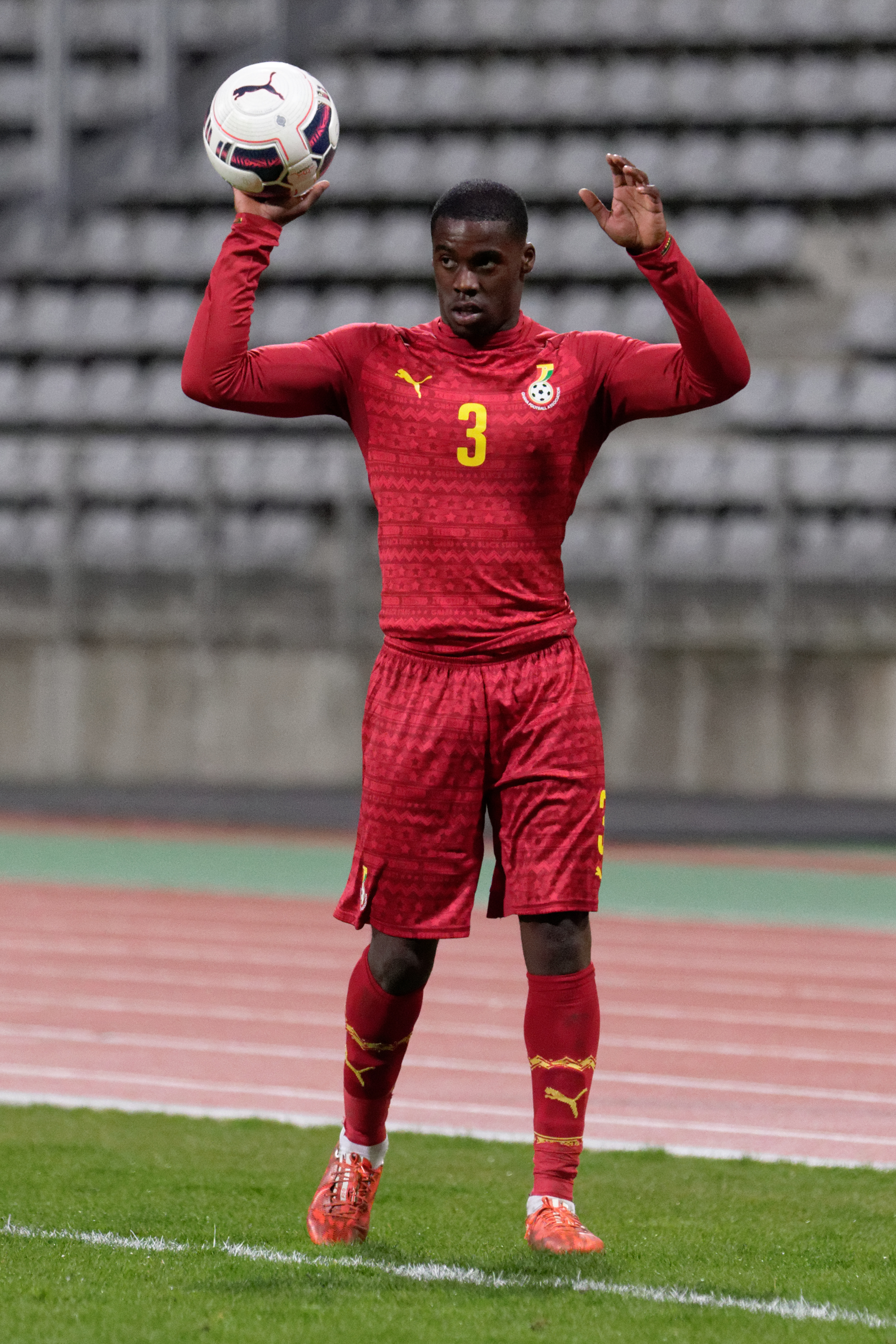 Mali vs Ghana, exhibition game at Paris, 31st March 2015.